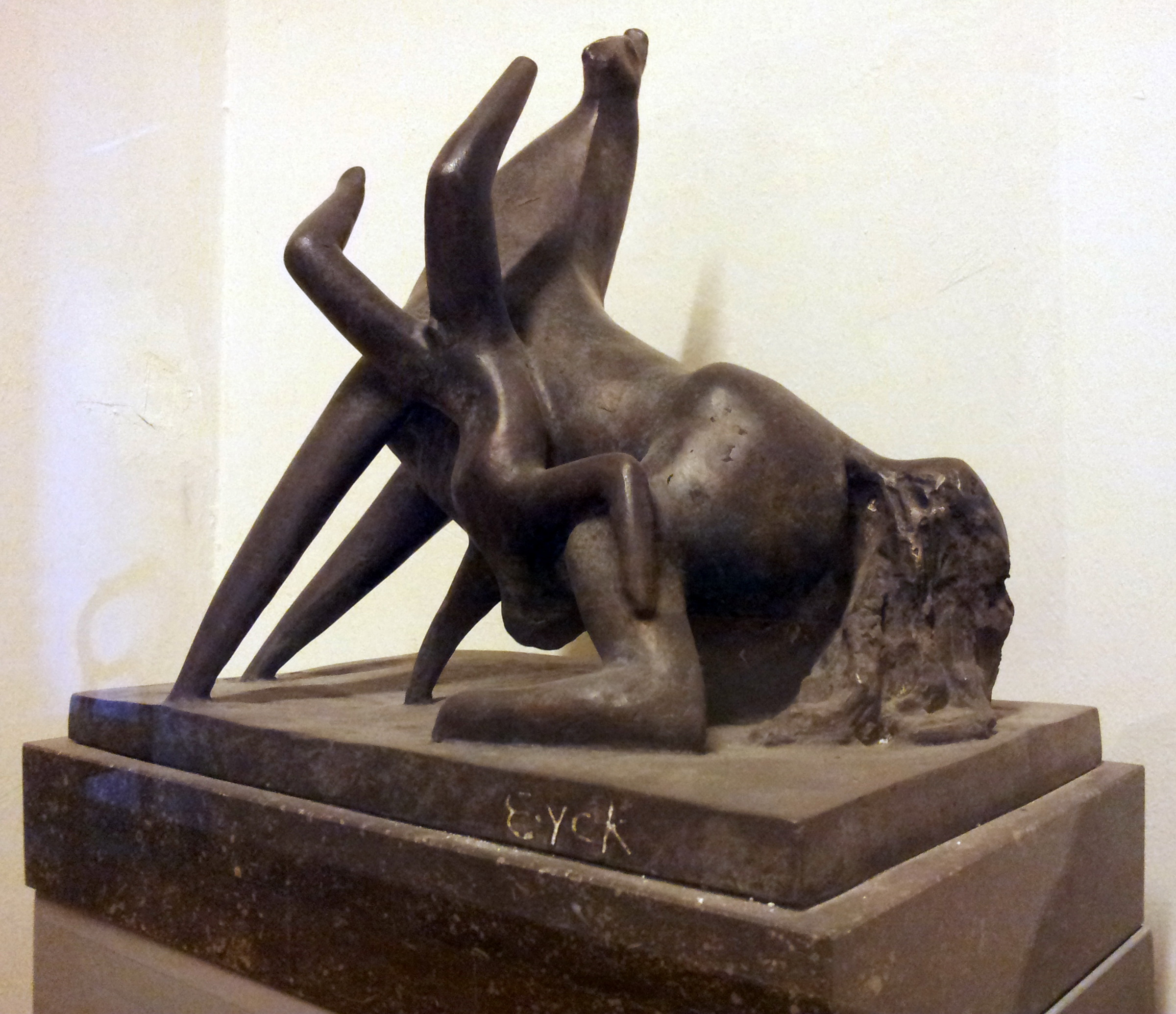 Plaster study (Charles Eyck, ca 1950) for the Limburg Liberation Memorial in Maastricht, local history collection of Museum Het Land van Valkenburg, Limburg.